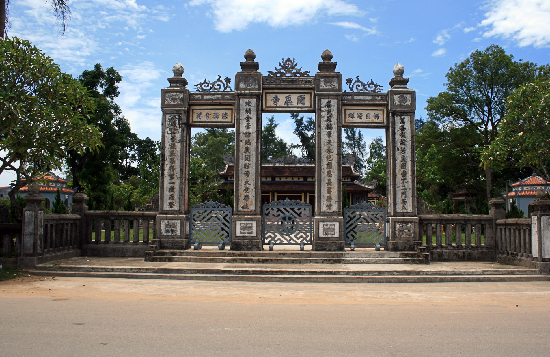 Quoc An pagoda, Hue, Viet Nam